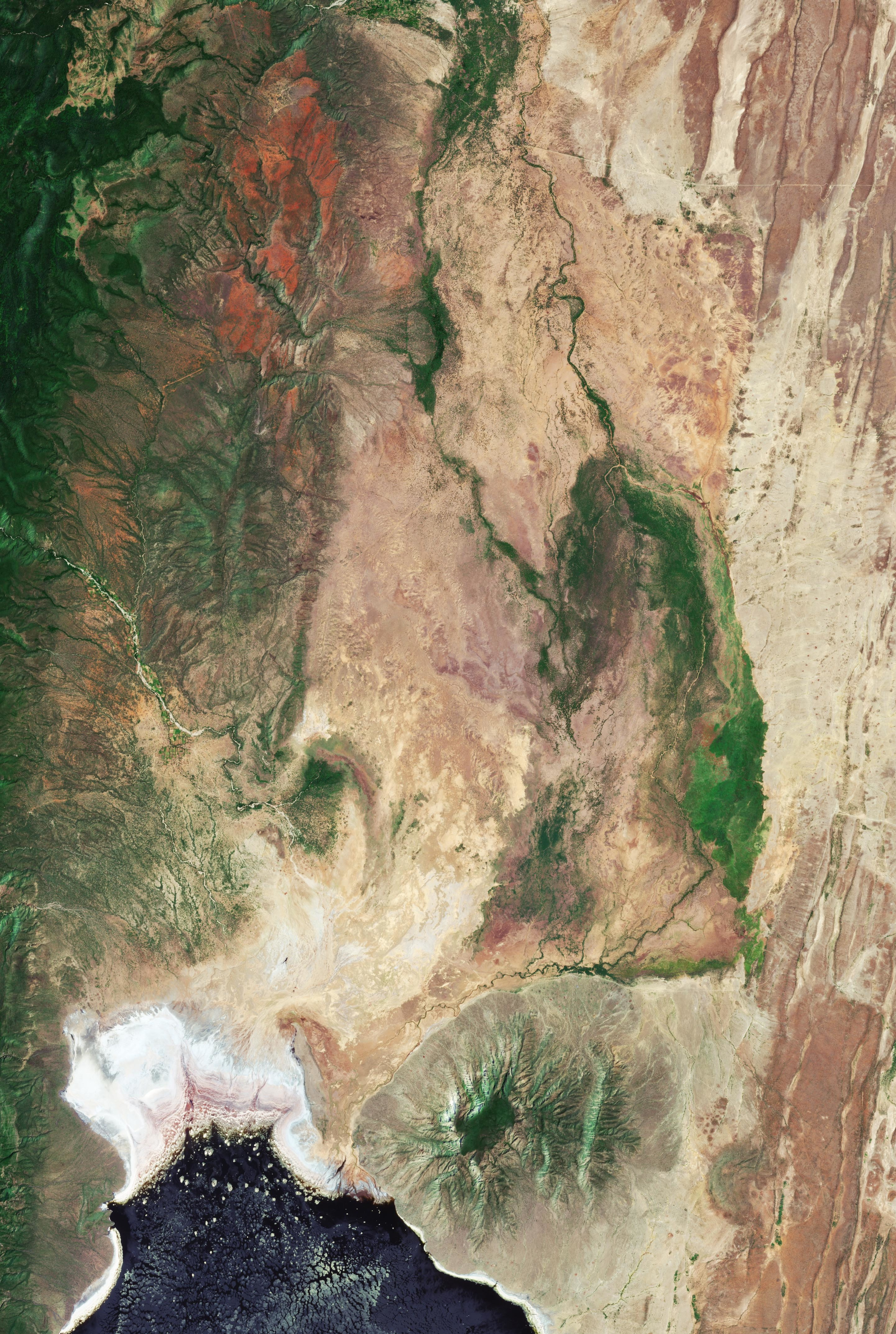 The River Southern Ewaso Ng’iro from Kalema (Kenya) to its mouth into Lake Natron (Tanzania). It is located in the East African Rift. Image captured on 3 February 2019 by Copernicus Sentinel-2 mission, a two-satellite mission to supply the coverage and data delivery needed for Europe’s Copernicus programme. It is also featured on the Earth from Space video programme.